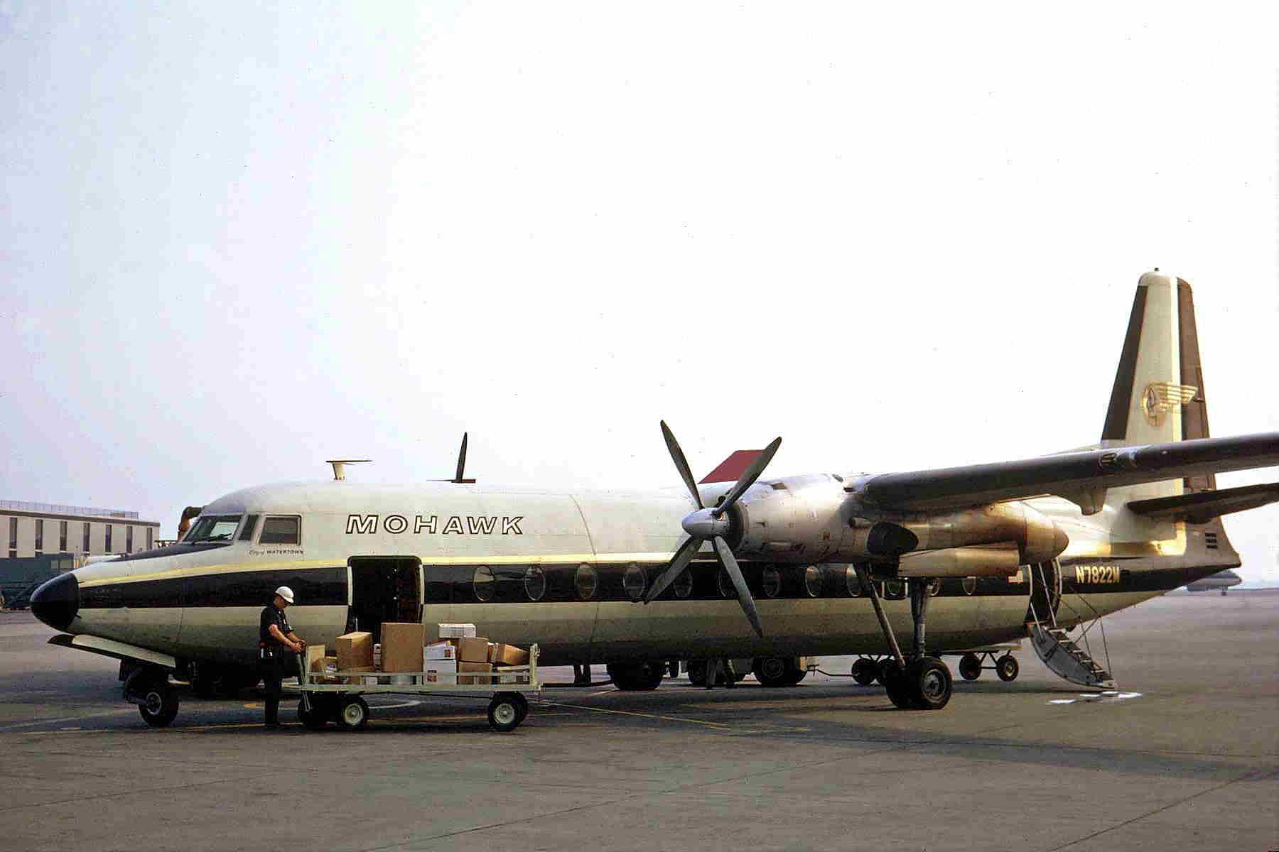 A picture of an airplane